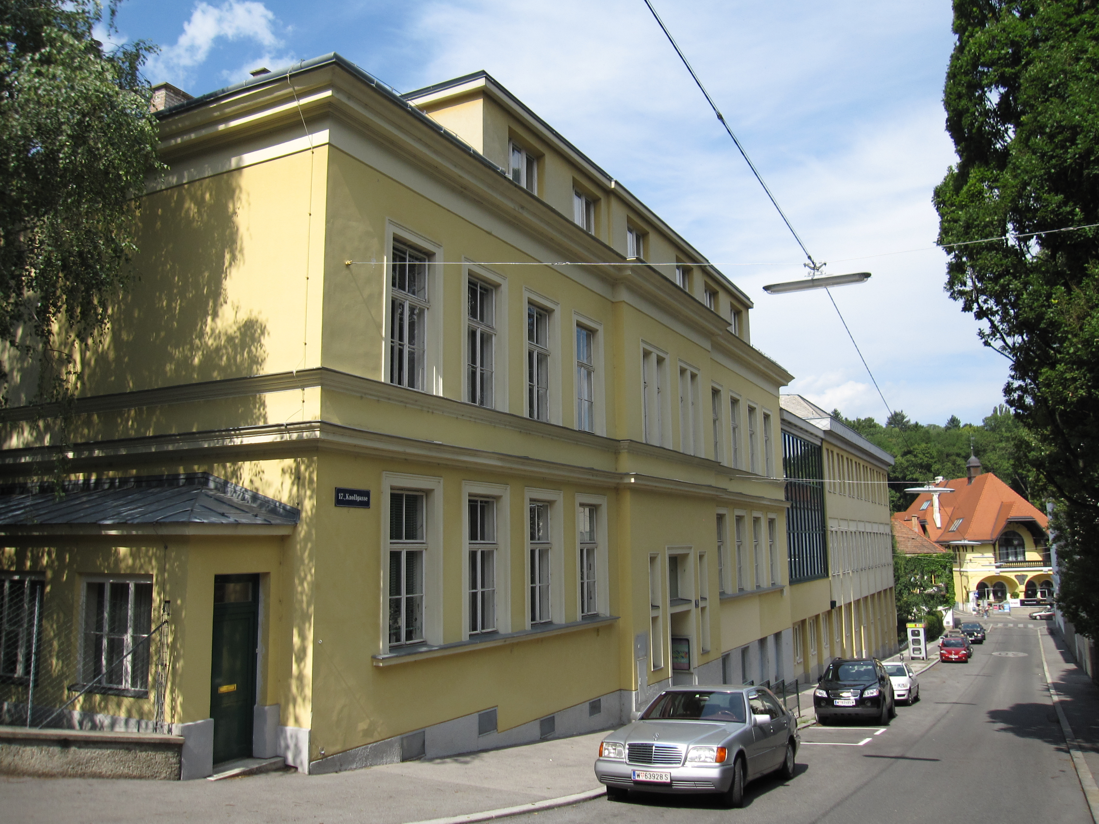 Volksschule Knollgasse in Dornbach, Vienna.